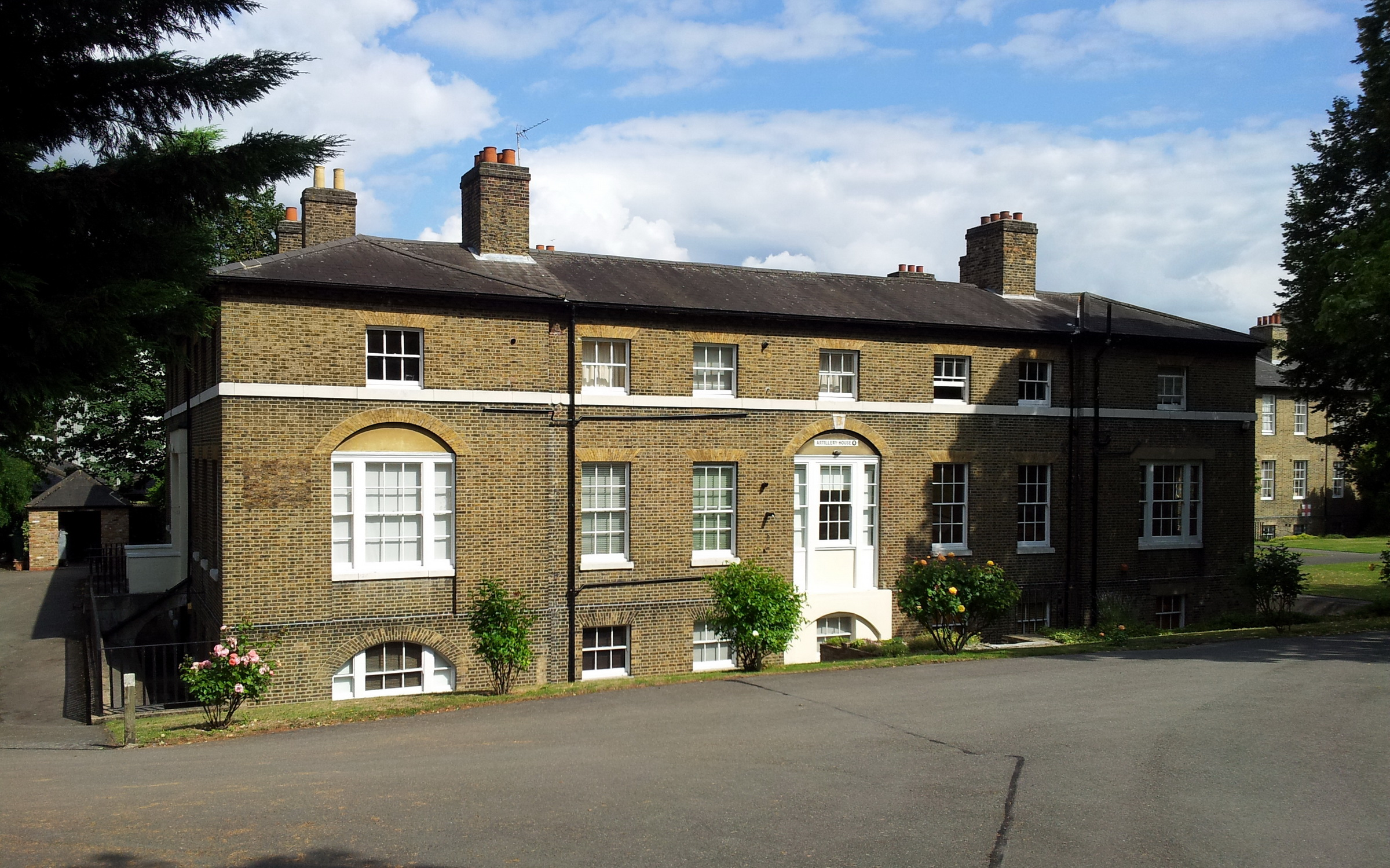 View from Grand Depot Road of Artillery House, formerly part of Connaught Barracks, Woolwich, South East London.